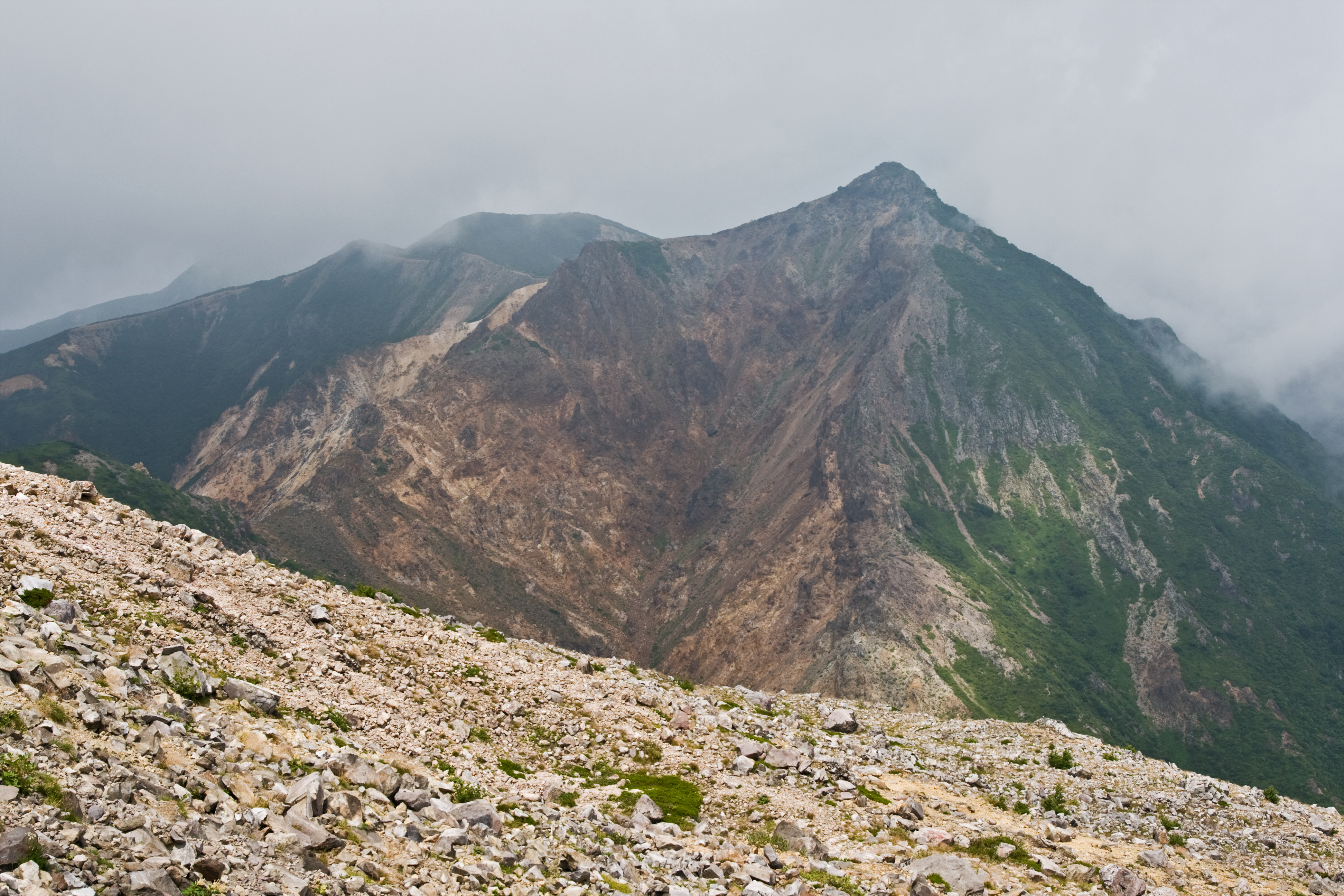 Mt.Asahidake, as seen from Mt.Chausudake, Mts.Nasu, Tochigi, Japan.